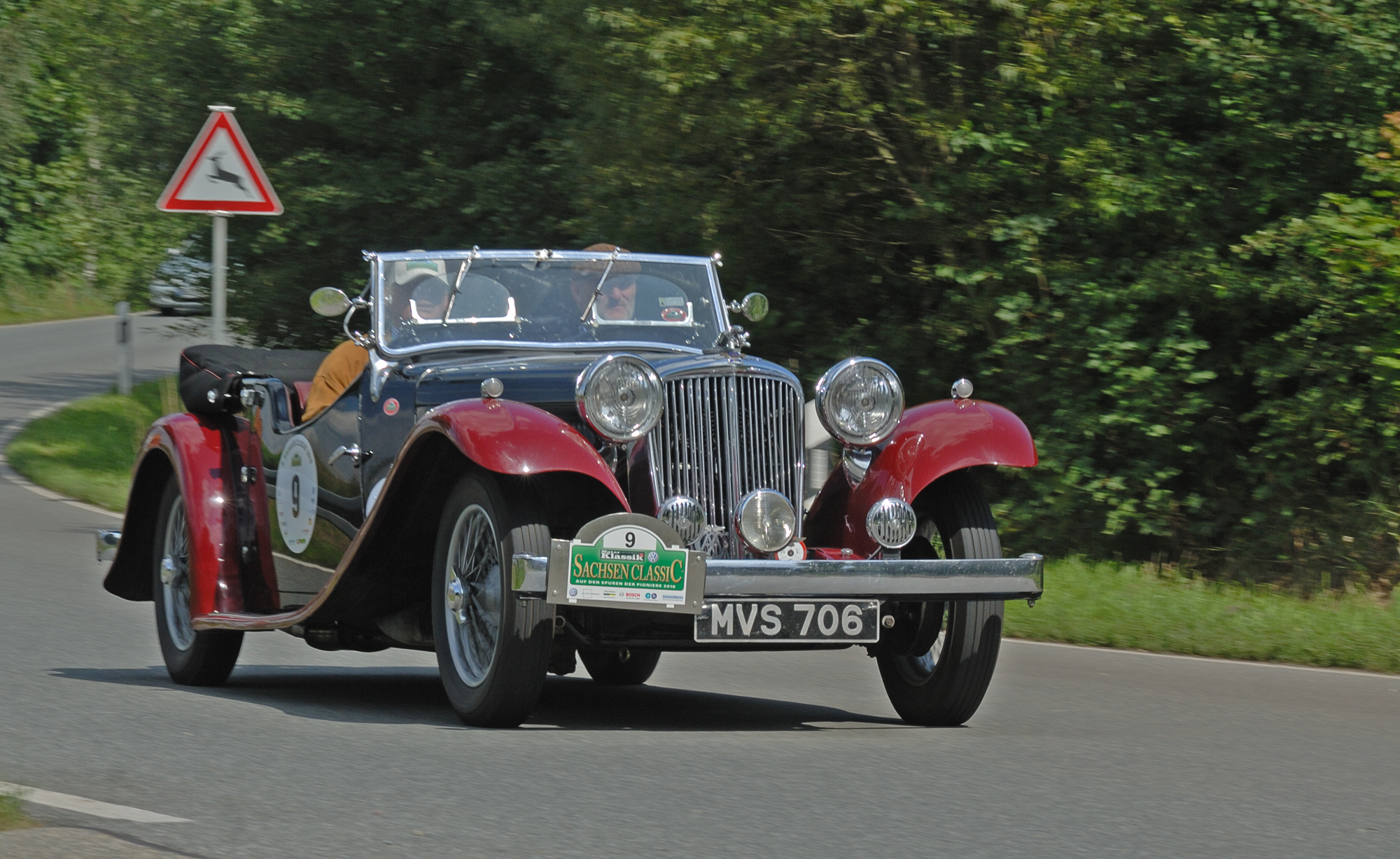 Jaguar S.S.1 from 1936 during the Saxony Classic Rallye 2010 (DVLA) first registered 21 February 1994, manufactured 1936, 3500cc